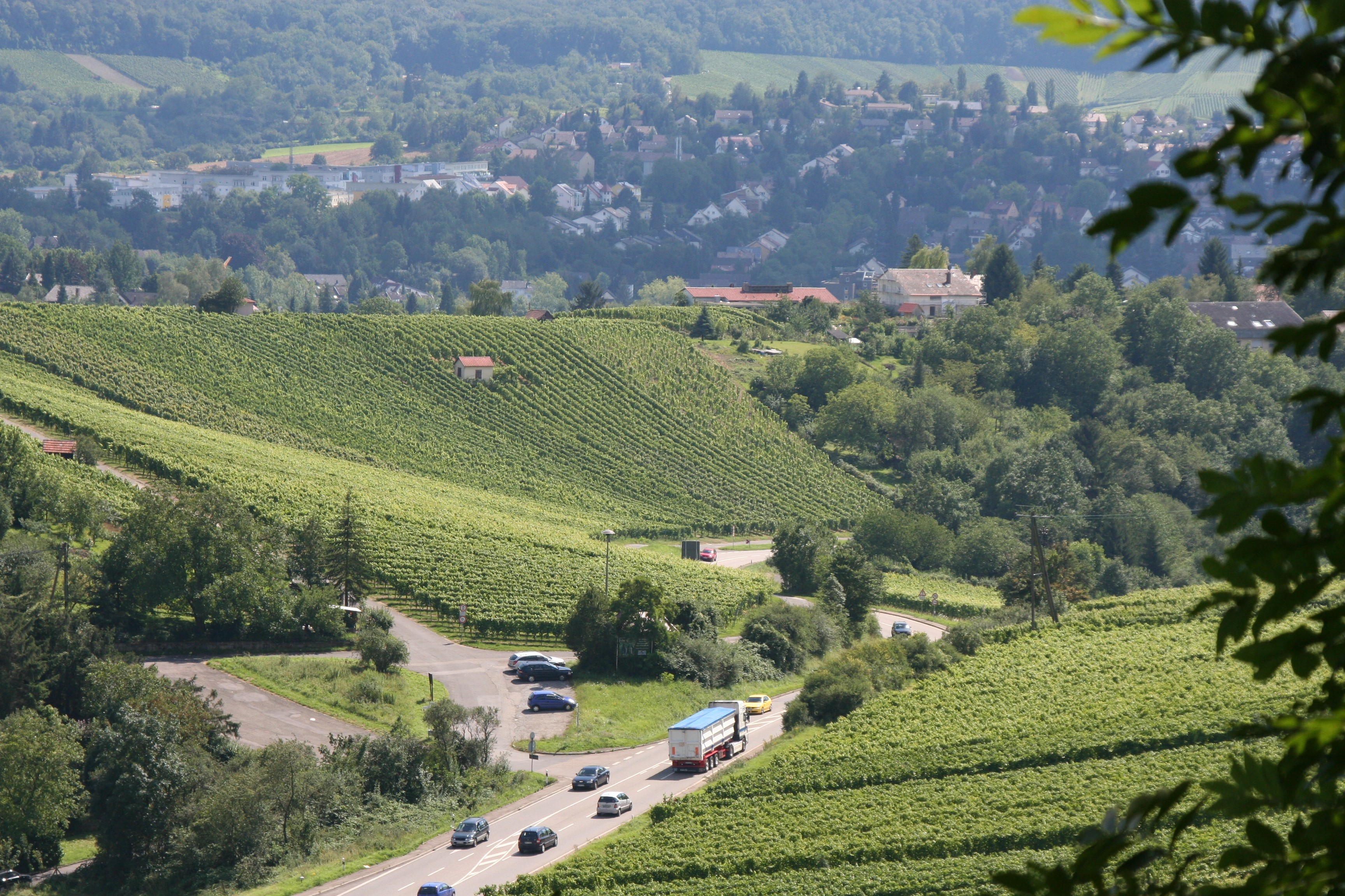 German federal road 39 with the so-called “saddle” between Heilbronn (seen in the background) and Weinsberg